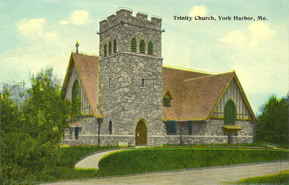 Trinity Episcopal Church, York Harbor, ME; from a 1913 postcard. Designed by Henry J. Hardenbergh in 1907, it was built in 1908.